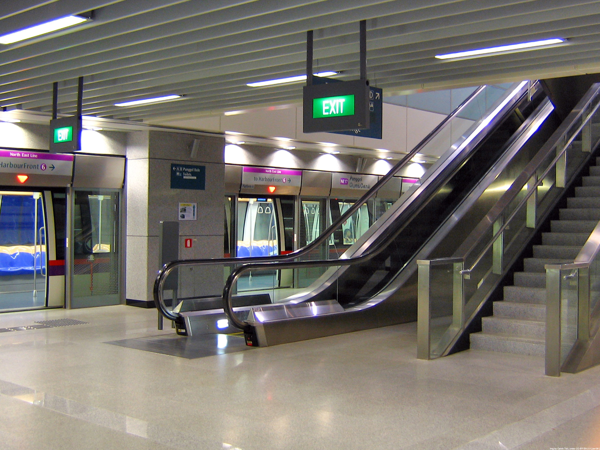 Platform of Punggol Station (NE17) on the North East Line in Singapore. Img by Calvin teo Jan'06